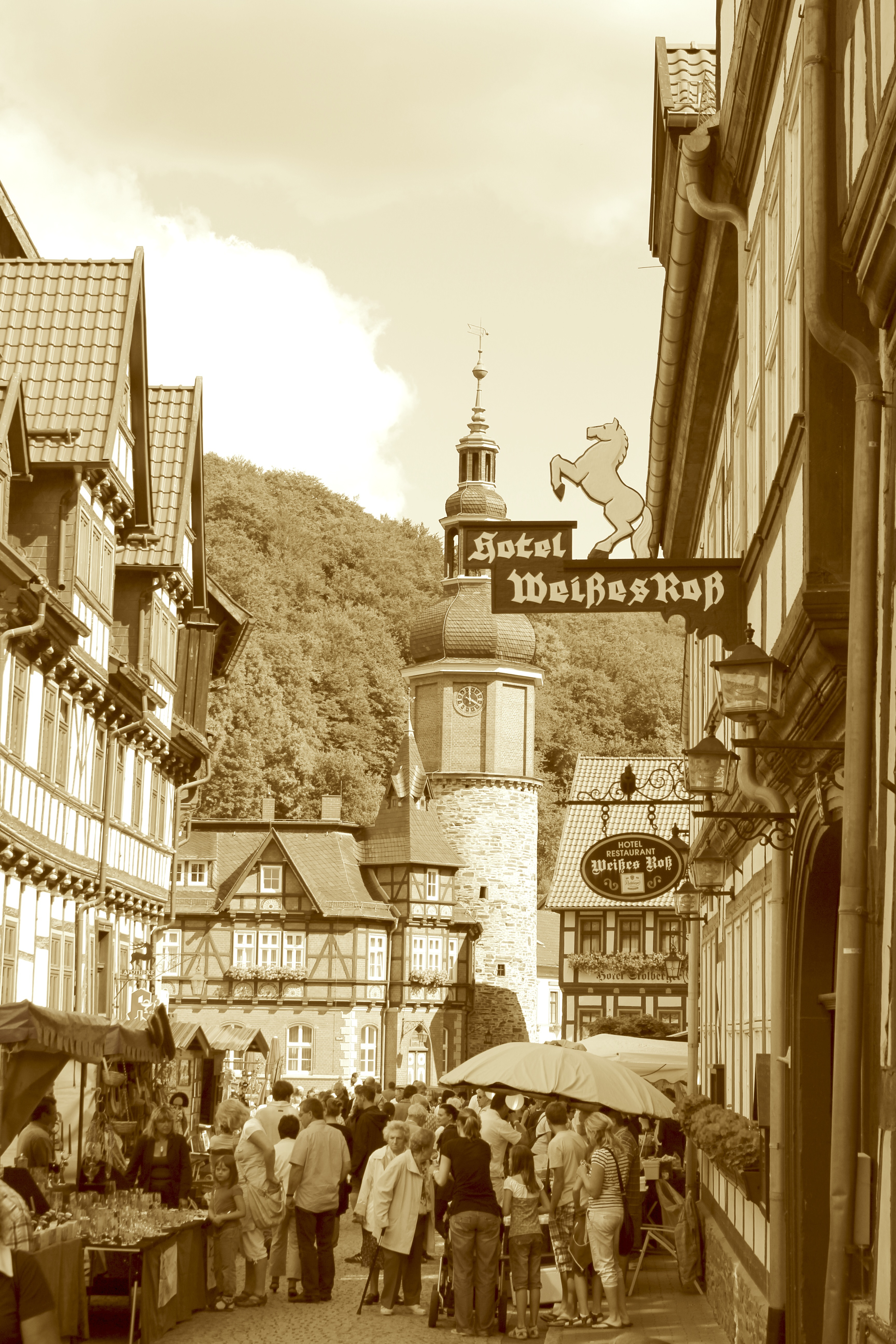 People of Germany in Stolberg, Saxony-Anhalt (Germany).